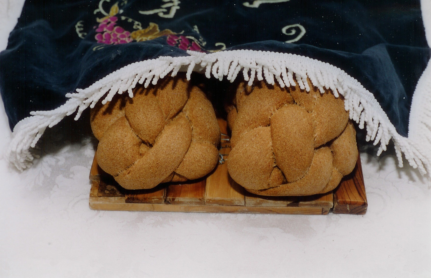 Photo of two homemade whole-wheat challos placed on a decorative olive-wood cutting board and covered by a traditional embroidered Shabbat challah cover. Photo taken on March 31 2006 by Yoninah.